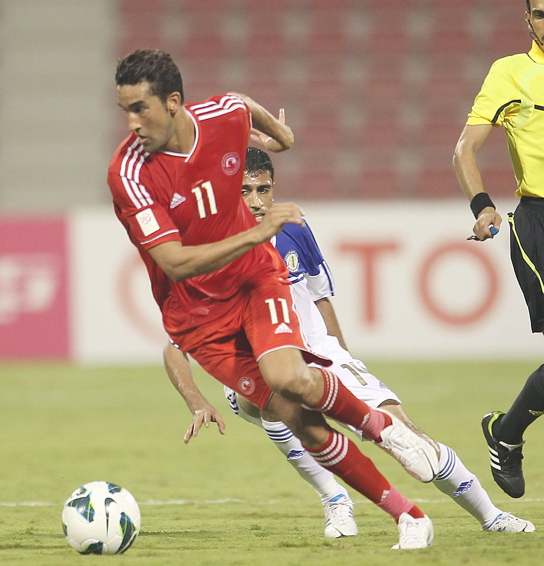 Al Arabi's Youssouf Hadji in action during the Qatar Stars League. Picture by Mohan